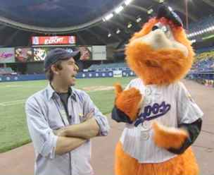 Erik Janssen in the days when Montreal still had the Expos